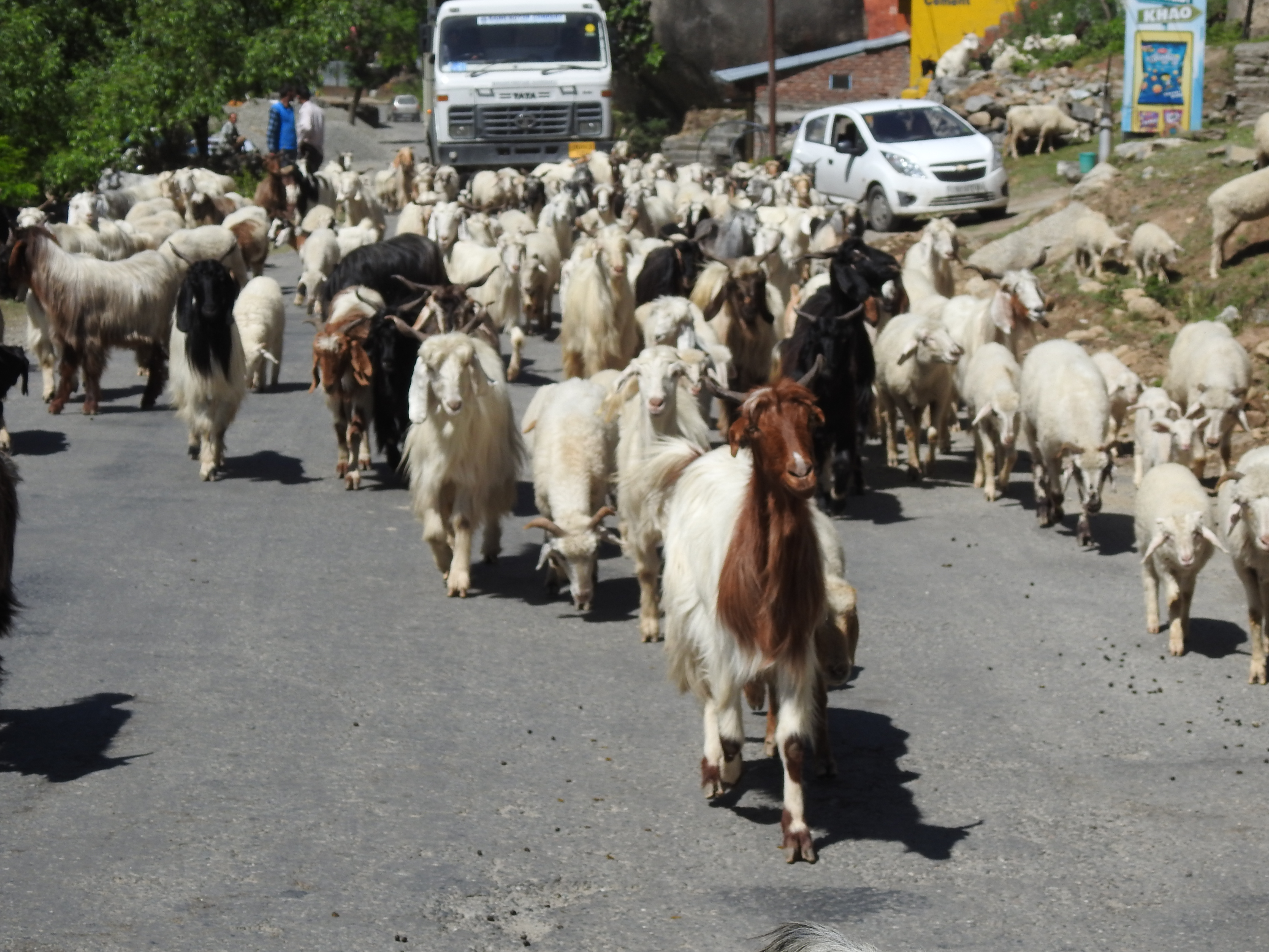 Gaddi herd of sheep and goats moving toward Bharmour from Chamba .Gaddi move their herds of sheep and goats toward Bharmour from lower ranges of plains in summer and vice versa.The Gaddis are a tribe living primarily in Himachal Pradesh and Jammu and Kashmir of Indian union.Their main profession is goat and sheep rearing.This image is taken by me on the way to Chamba -Bharmour road on 19 April 2019.